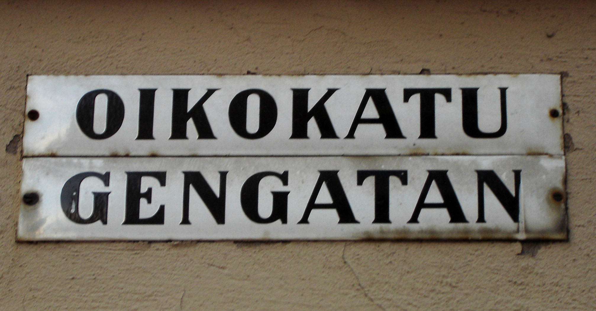 Bilingual street sign in Kruununhaka, Helsinki, Finland. Oikokatu is the Finnish, Gengatan the Swedish name of the street.